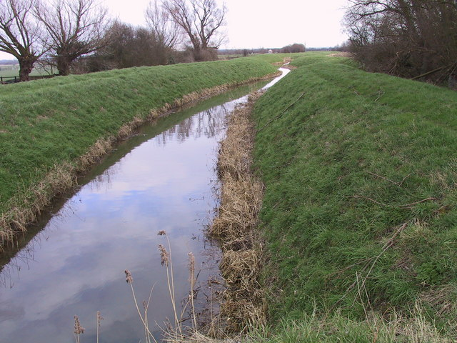 Bottisham Lode Viewed from a footbridge.